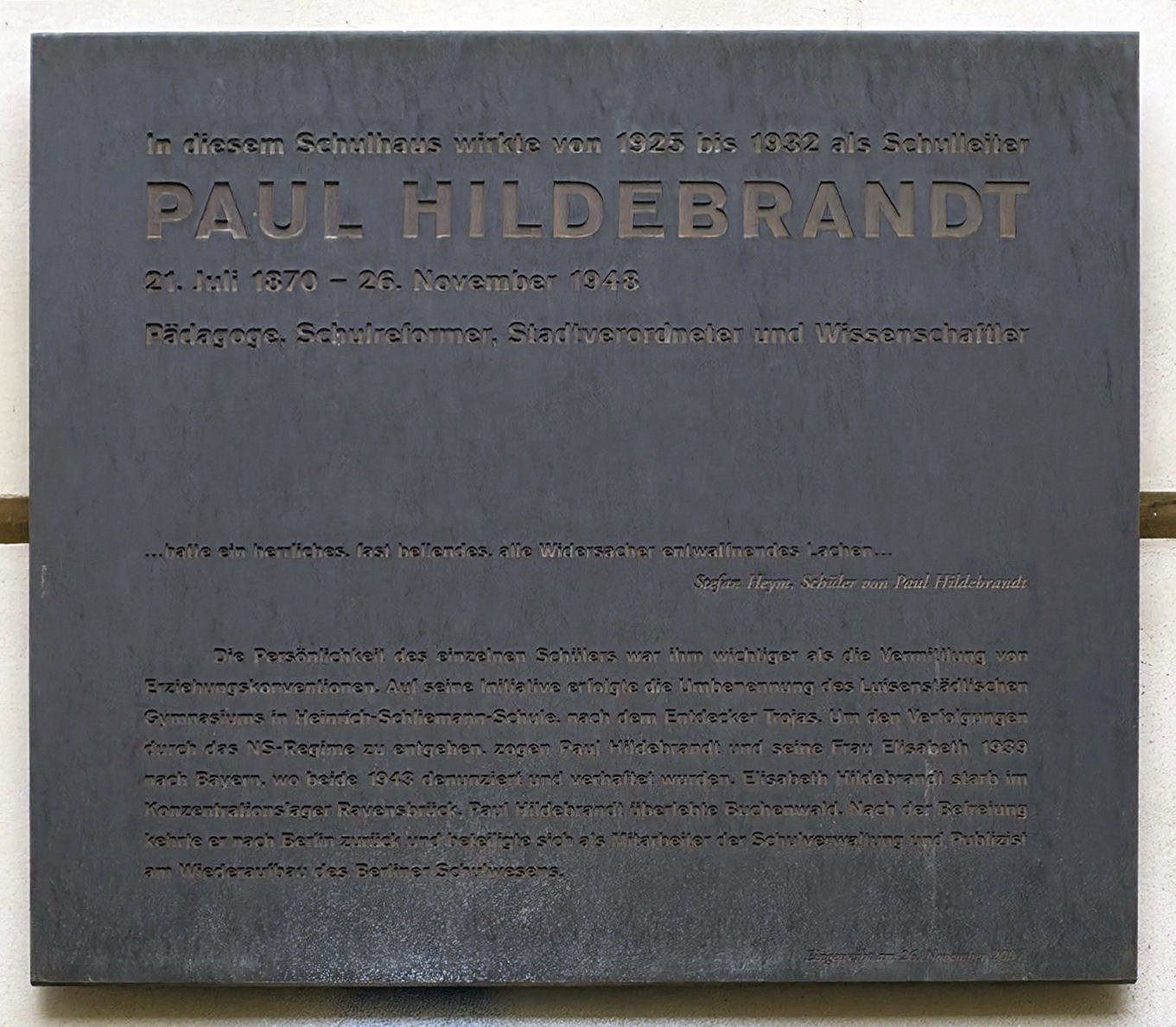 Memorial plaque, Paul Hildebrandt, Gleimstraße 49, Berlin-Prenzlauer Berg, Germany